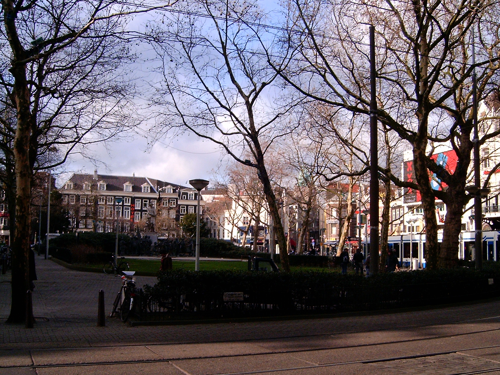 Rembrandplein